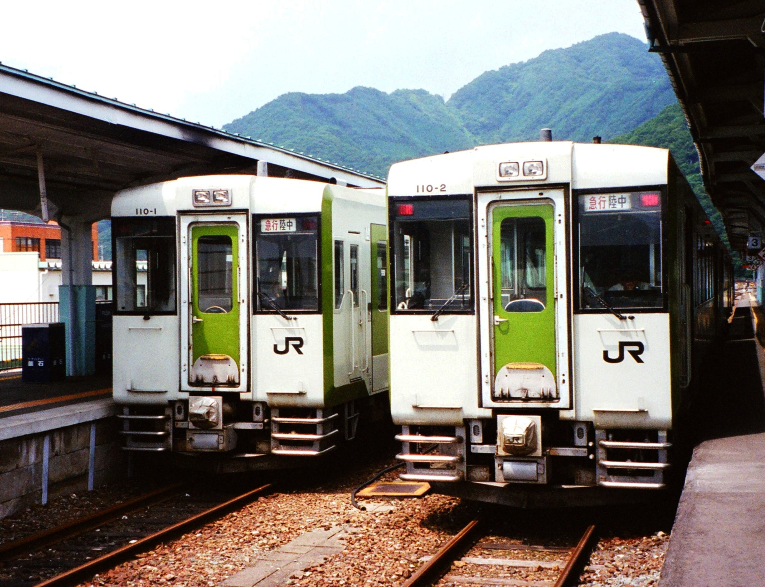 JR East KiHa 110 series DMUs at Kanaishi Station on "Rikuchu" express services.